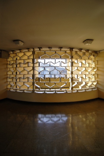 Interior de una de las torres